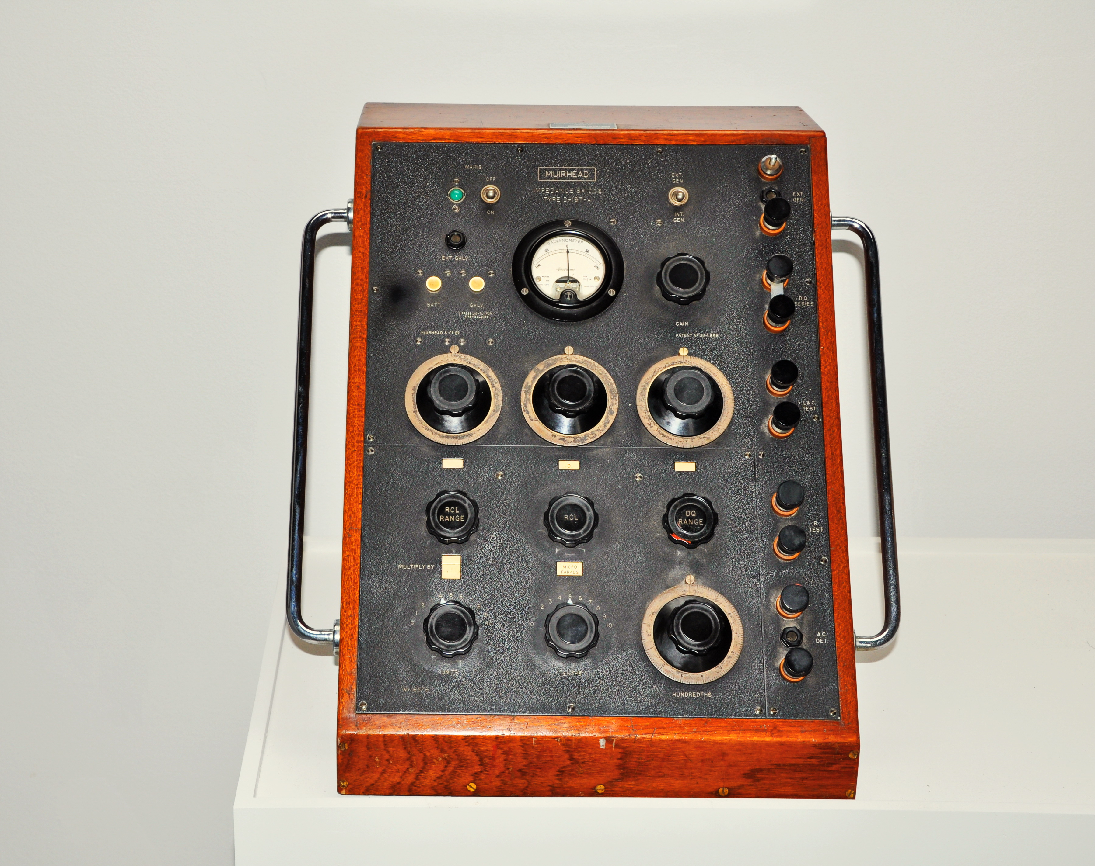 Bridge for resistance measure. It is located in Museum of Science and Technology Belgrade.